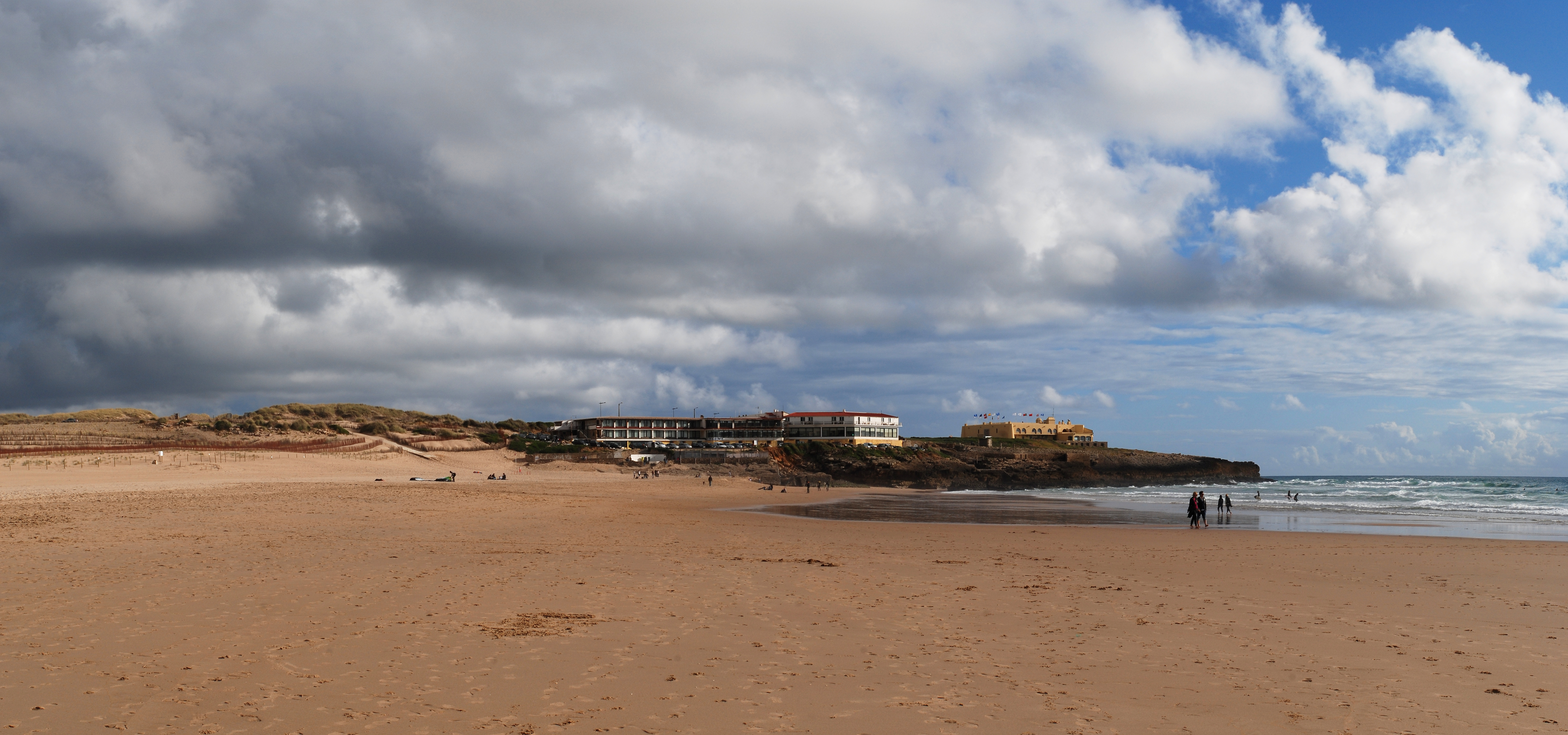 Praia do Guincho, west coast of Portugal. View to south.